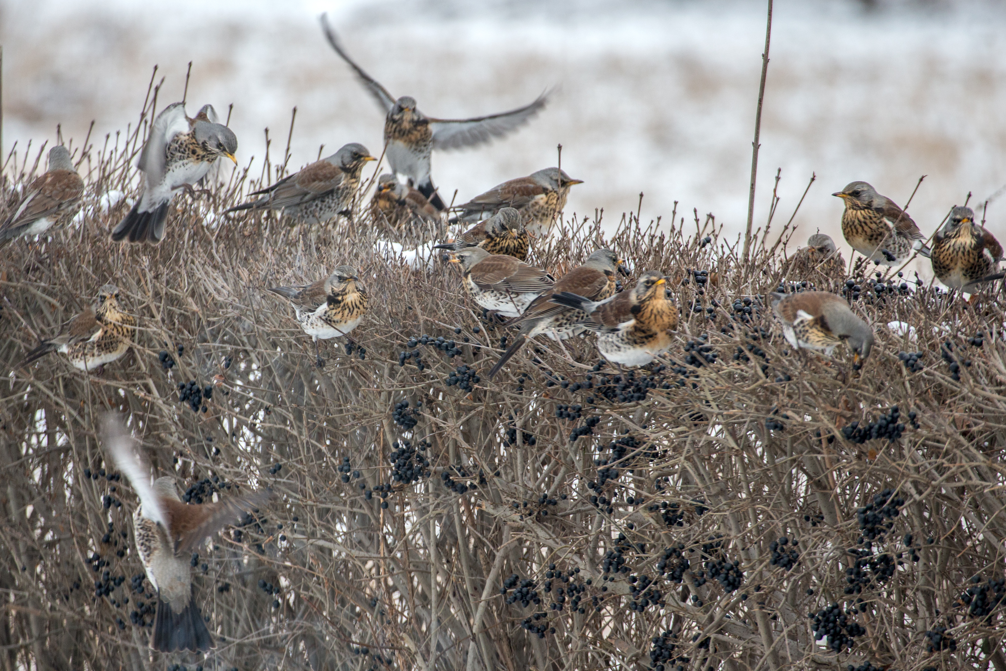 The Fieldfare, Lodz(Poland)